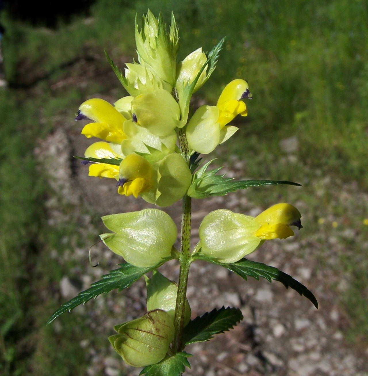 Rhinanthus angustifolius (syn. Rhinanthus serotinus)